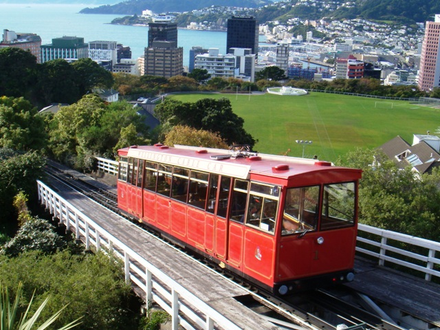 Cable car, Wellington, New Zealand